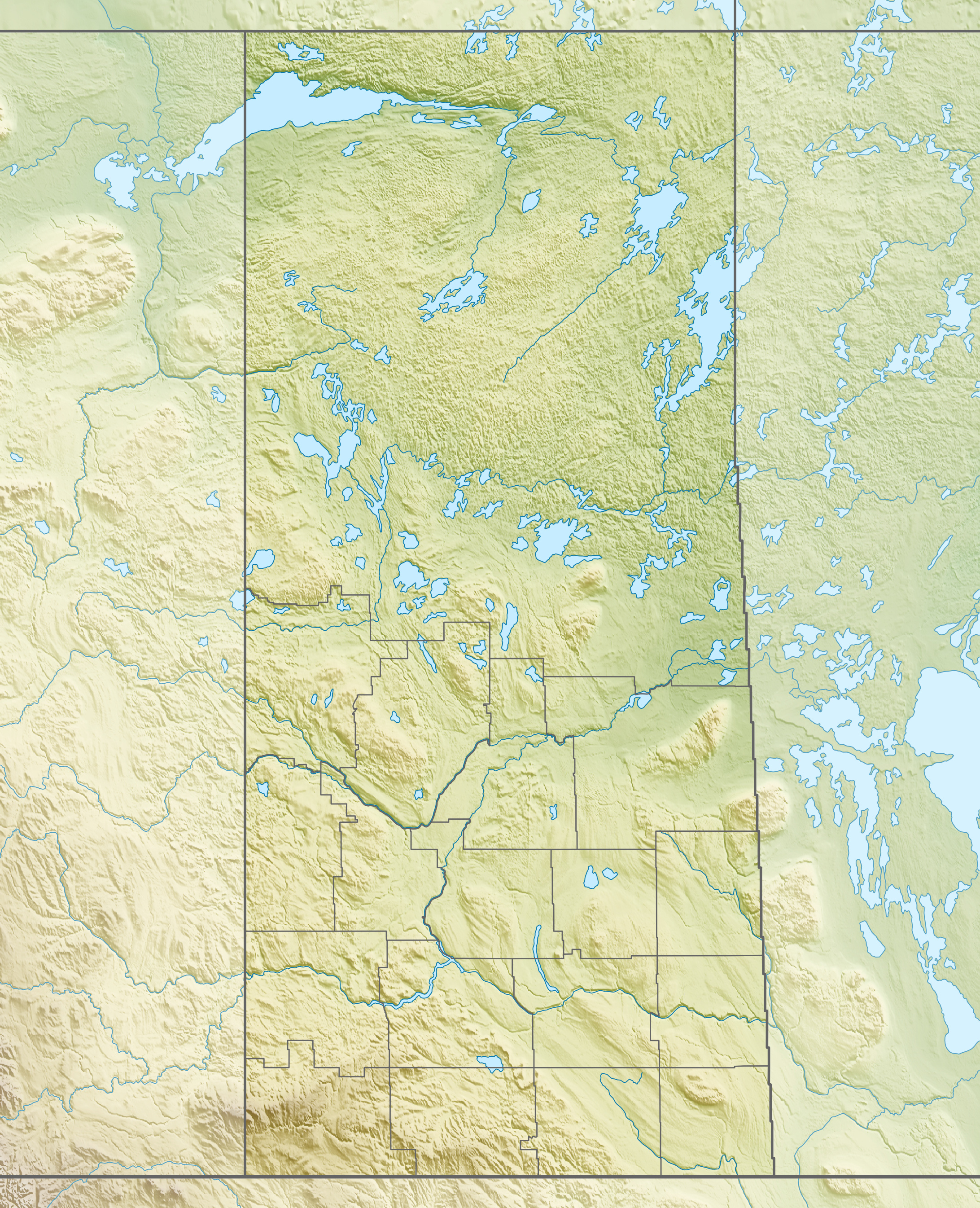 Physical location map of Saskatchewan, Canada Equirectangular projection, N/S stretching 170 %. Geographic limits of the map: N: 60.3° N S: 48.7° N W: 114.0° W E: 98.0° W